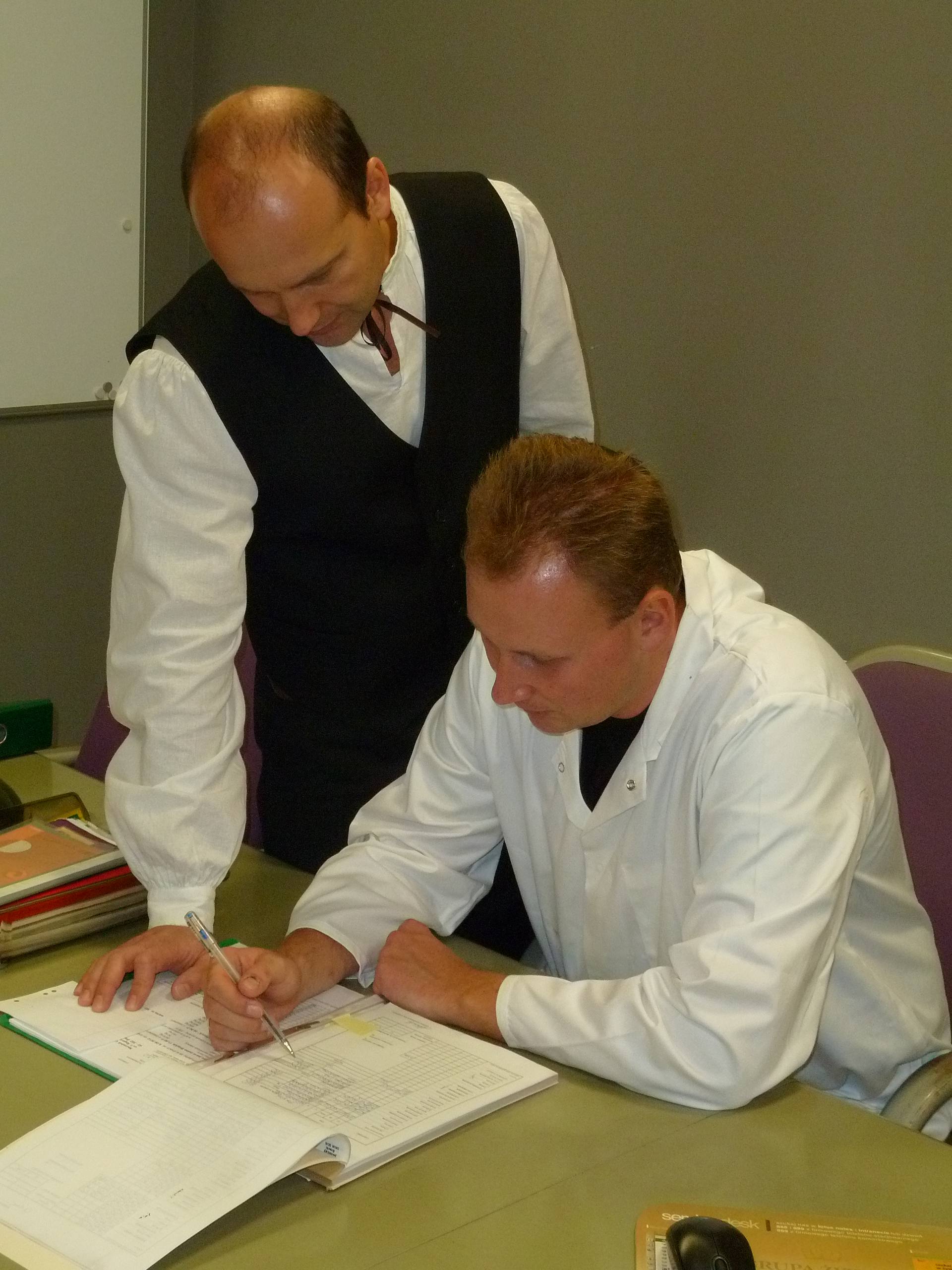 FestiwalBirofilia4